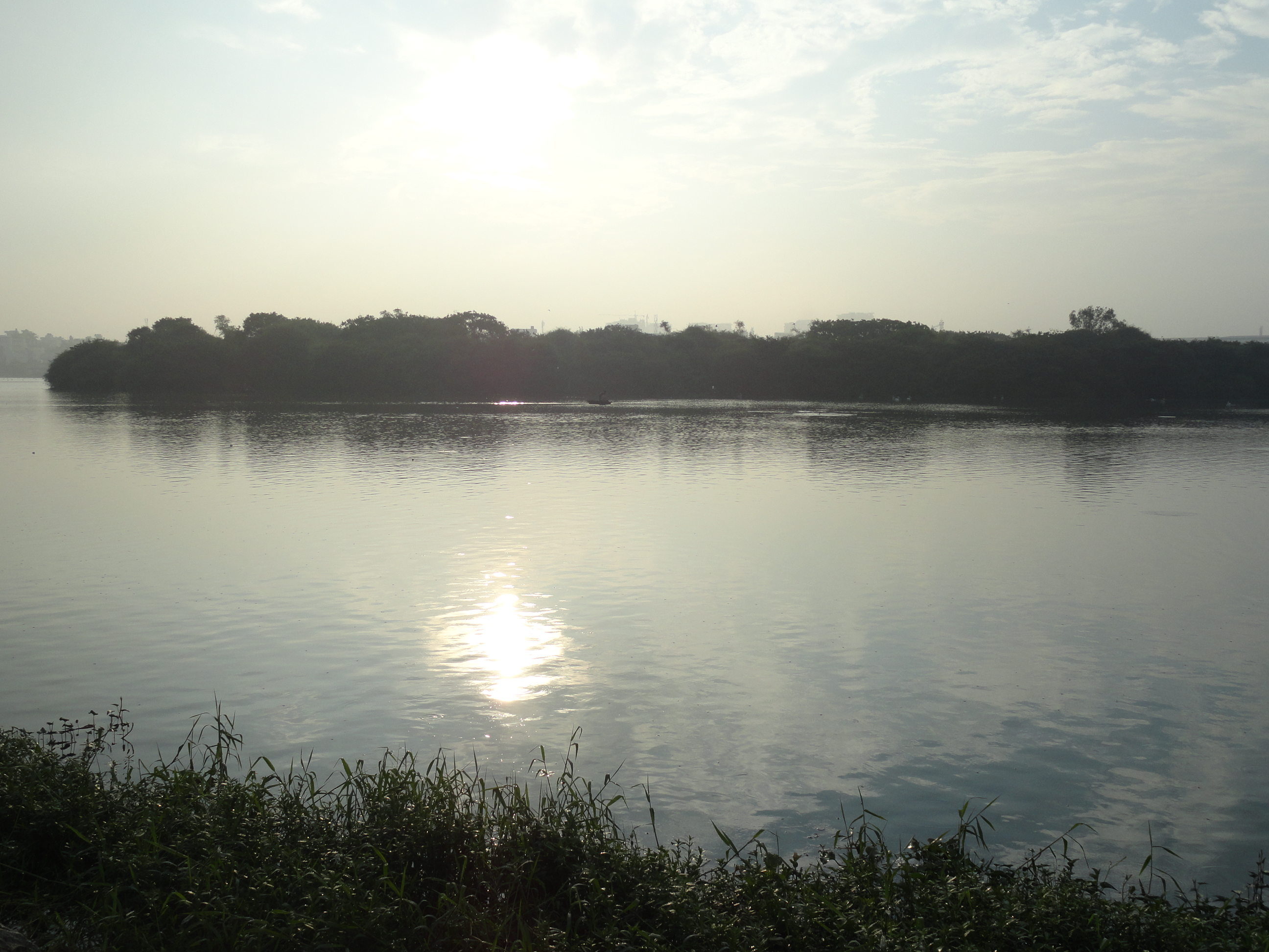 A view of Madiwala Lake